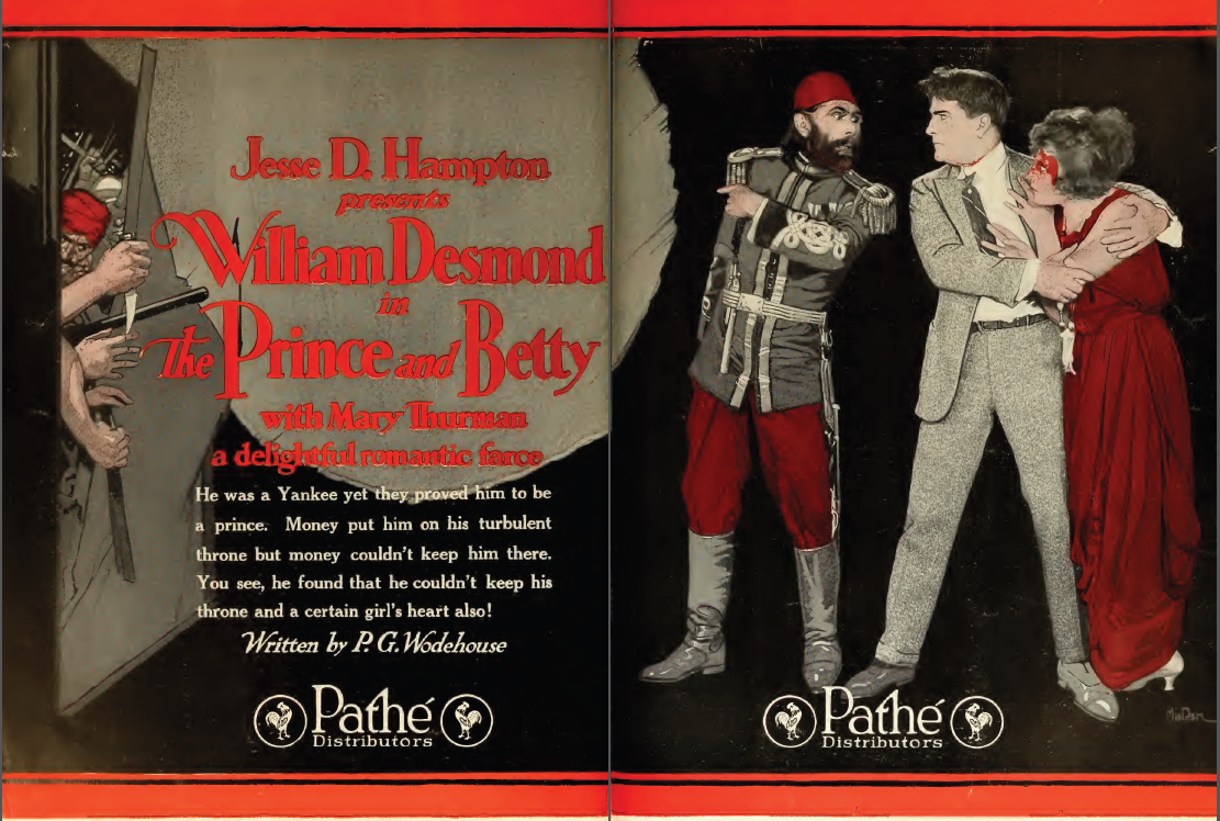 Ad with William Desmond in the film The Prince and Betty (1919).